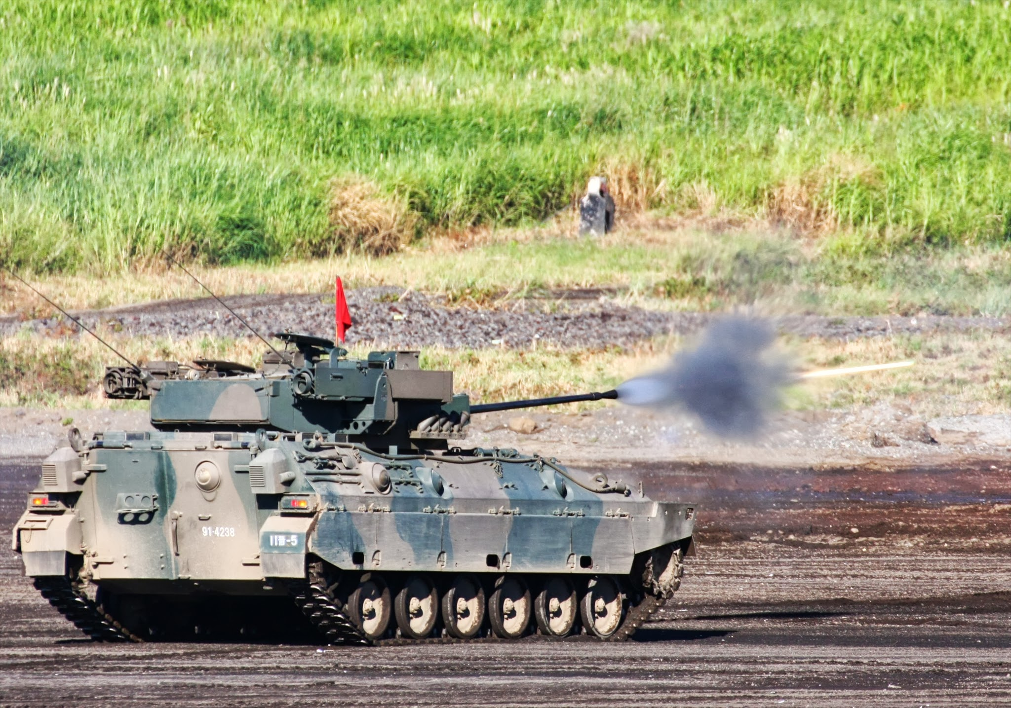 Title FV.jpg Album 富士総合火力演習・そうかえん 前段演習・普通科火力（８９式装甲戦闘車）